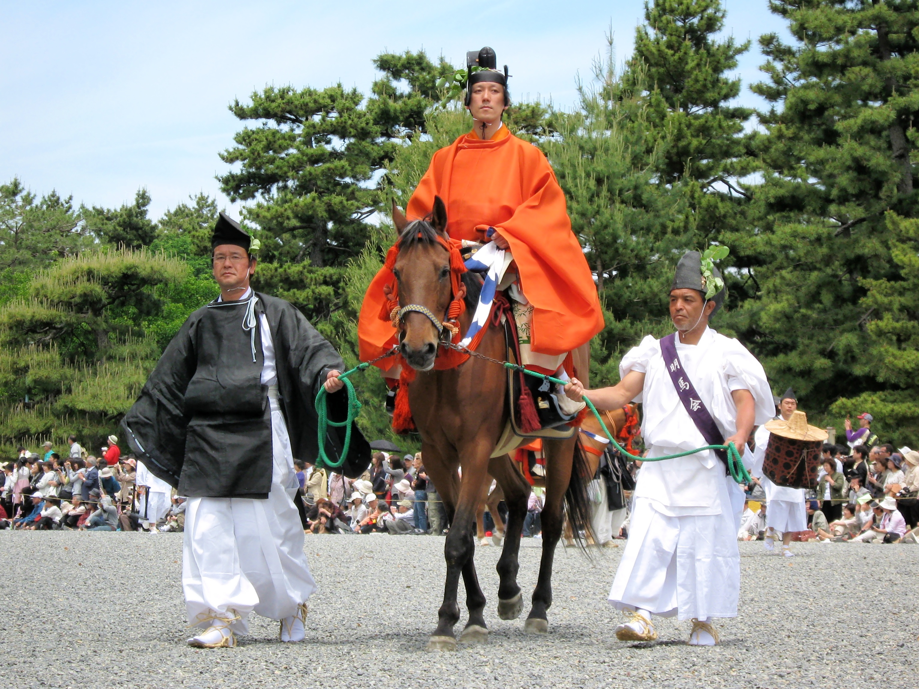 In Apr/May 2009, I took 15 days to walk all the way from Tokyo to Kyoto, roughly following the 546km long, ancient highway, the Nakasendo, alone. This picture was taken during the free week I had in Japan after the walk. Read about my preparations and my time in Japan at .